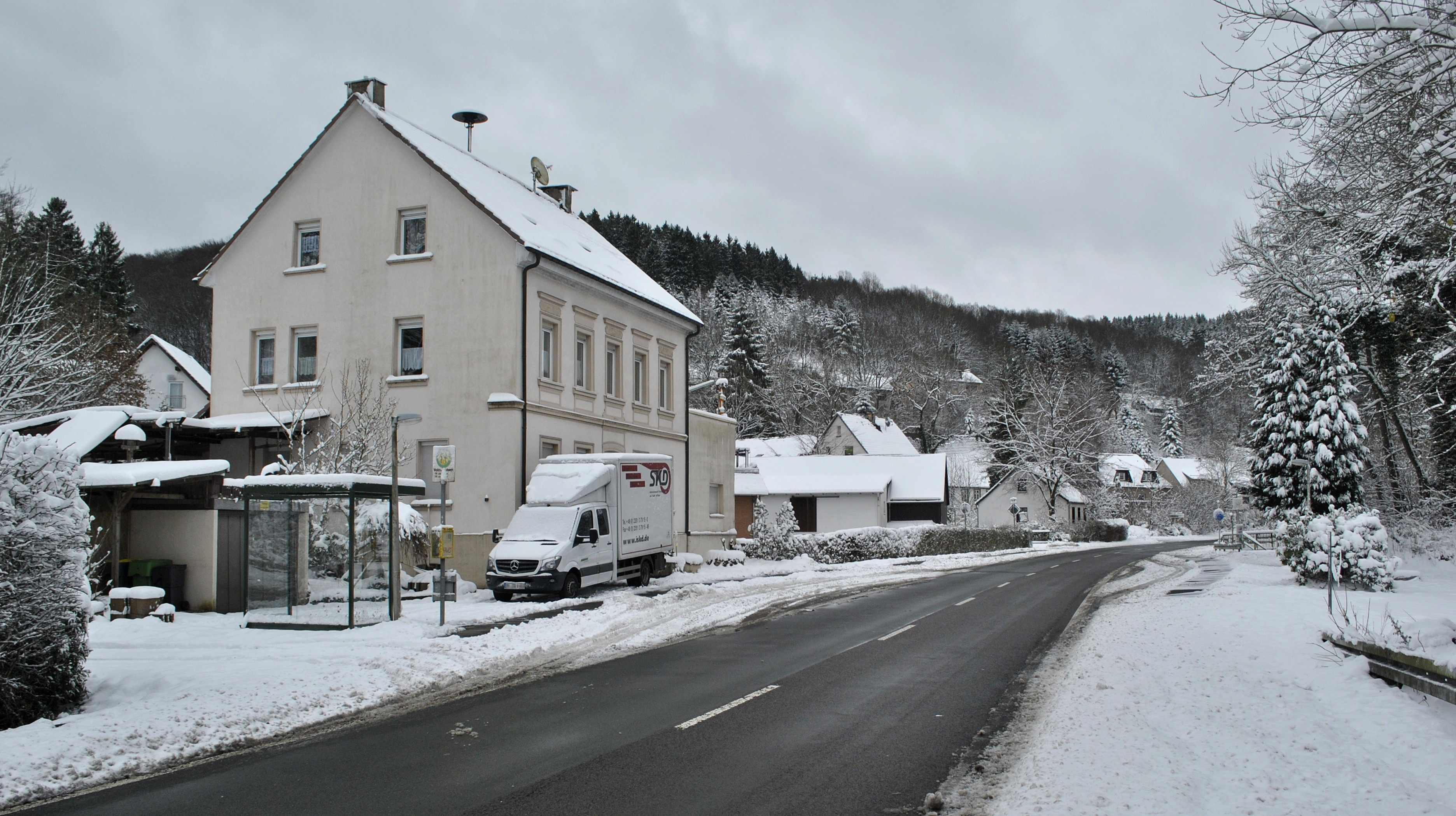 View of Vollme's main street near the Jubach bus stop.